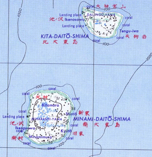 Map of Daito-shoto, created by the U.S. Army Map Service.